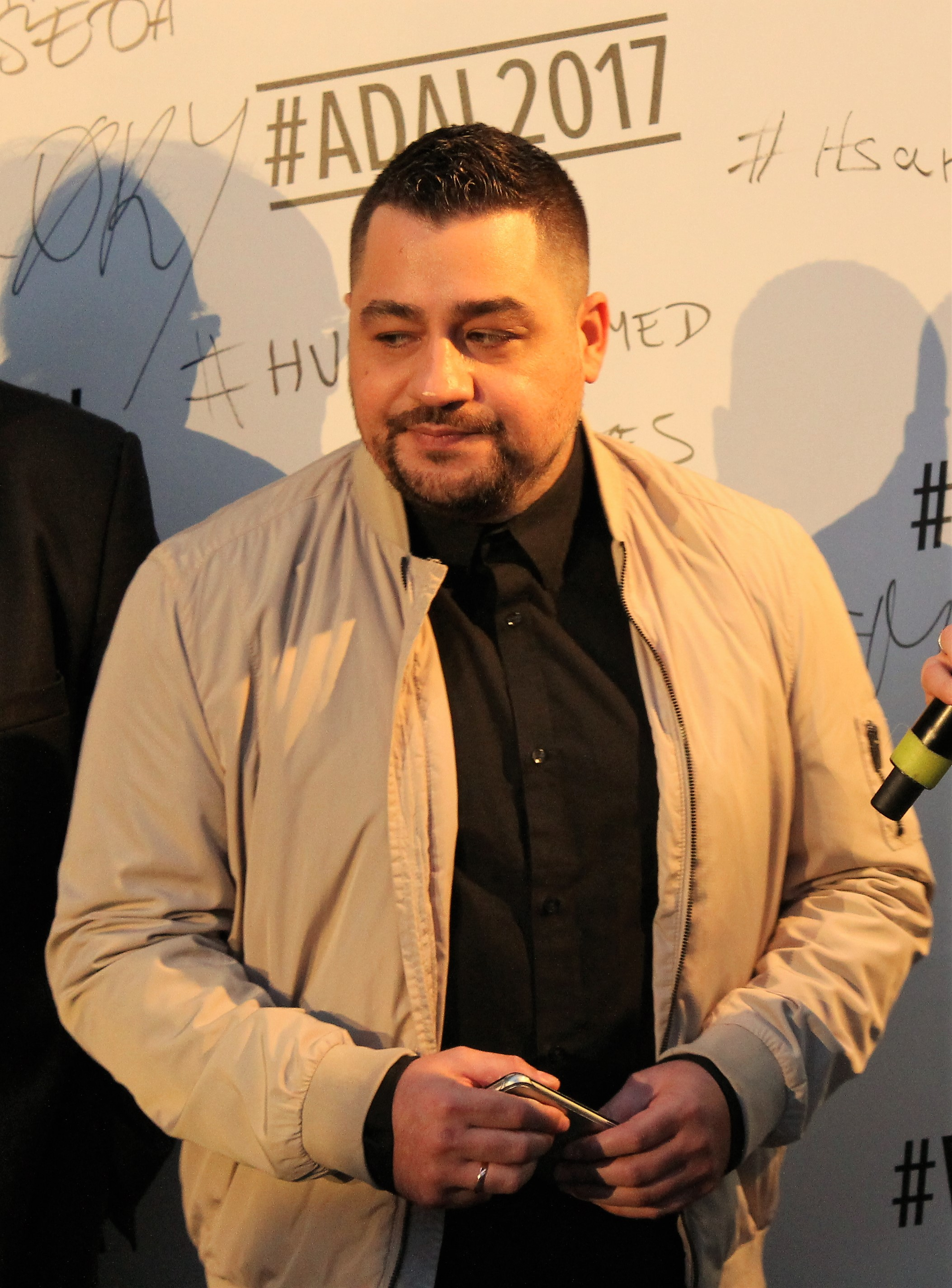 Caramel, one of the jurors of A Dal 2017